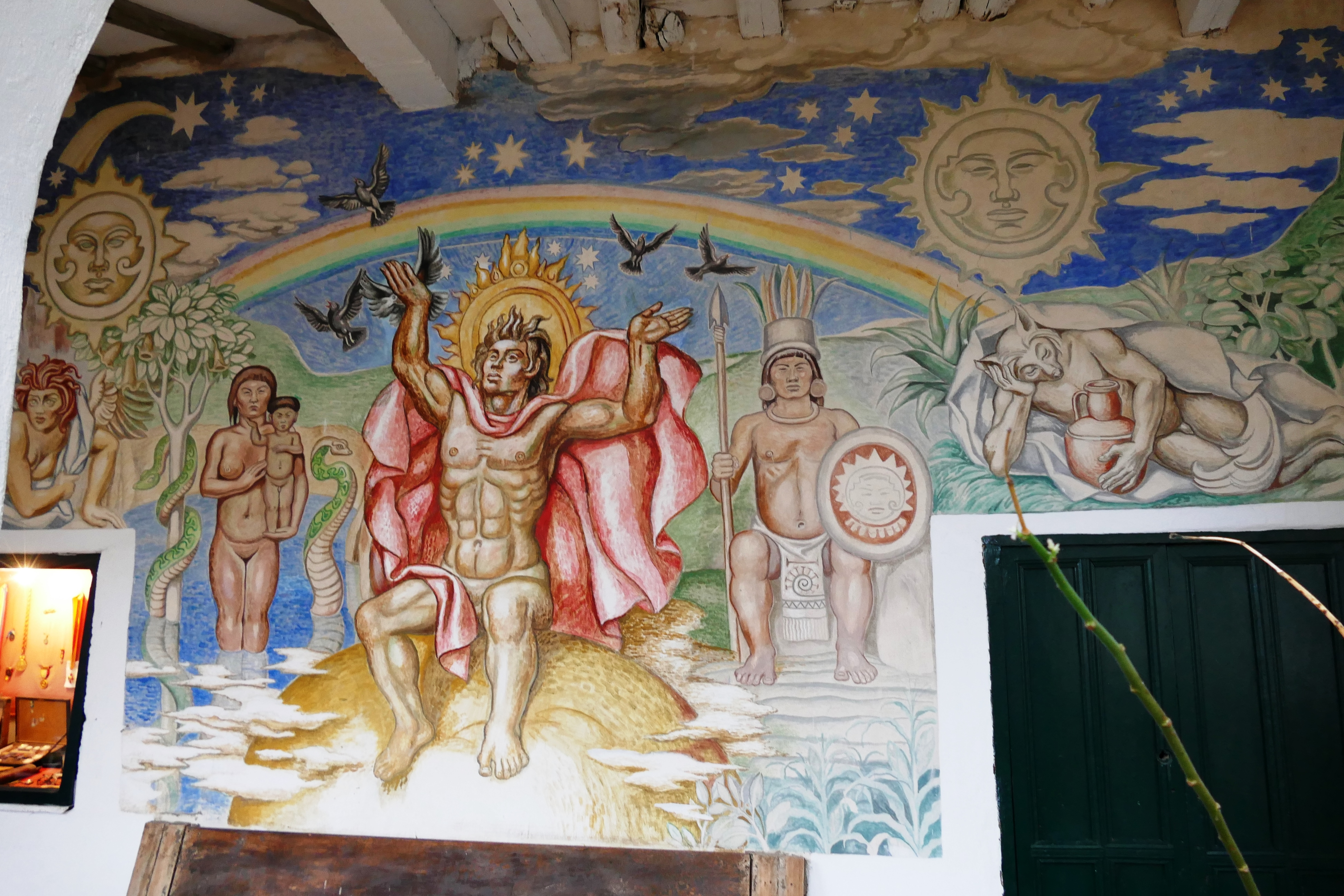 Casa Museo de Luis Alberto Acuña